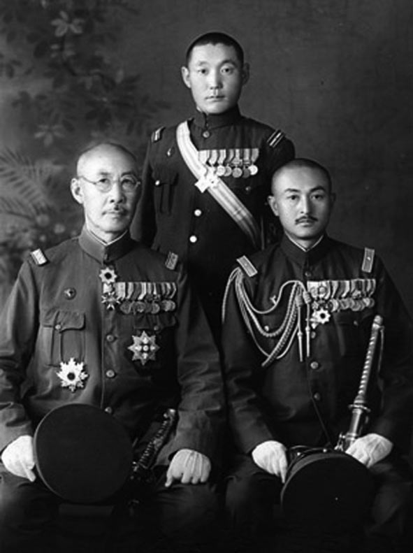 Manchukou generals Urzhin Garmaev (left), Jengjuurjab (right) and (presumably) Mijiddorjiin Balbar (standing)